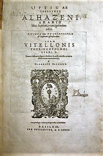 This picture is of the cover page of Ibn al-Haytham's "Book of Optics", 1572.